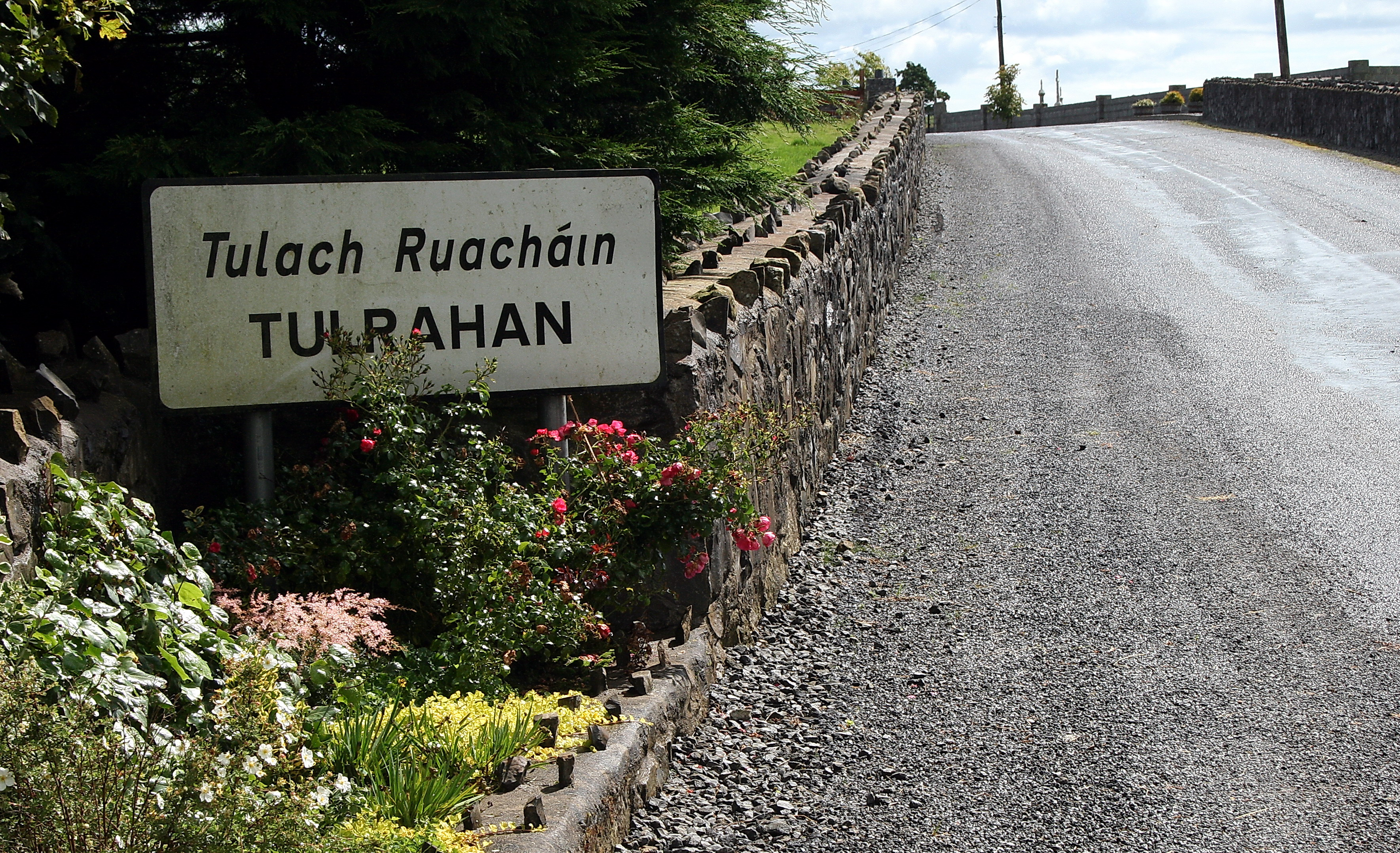 The Invisible Village in Mayo